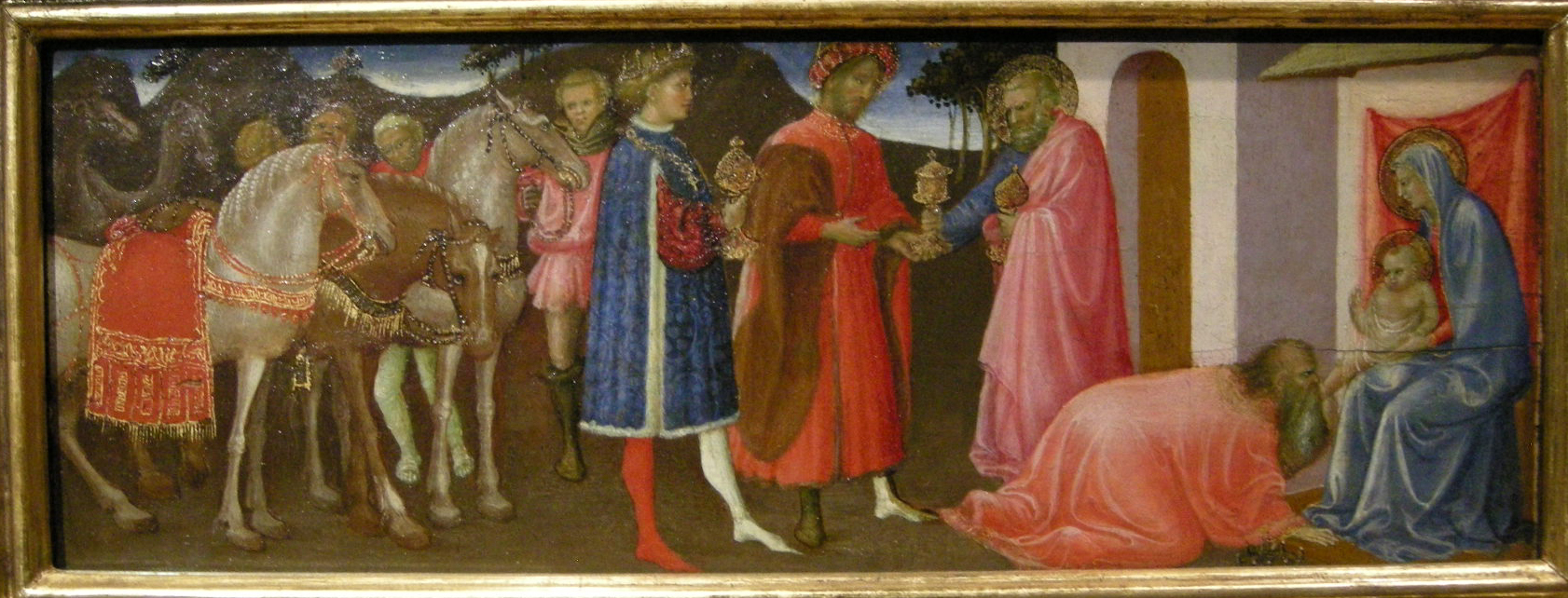 Adoration of the Magi